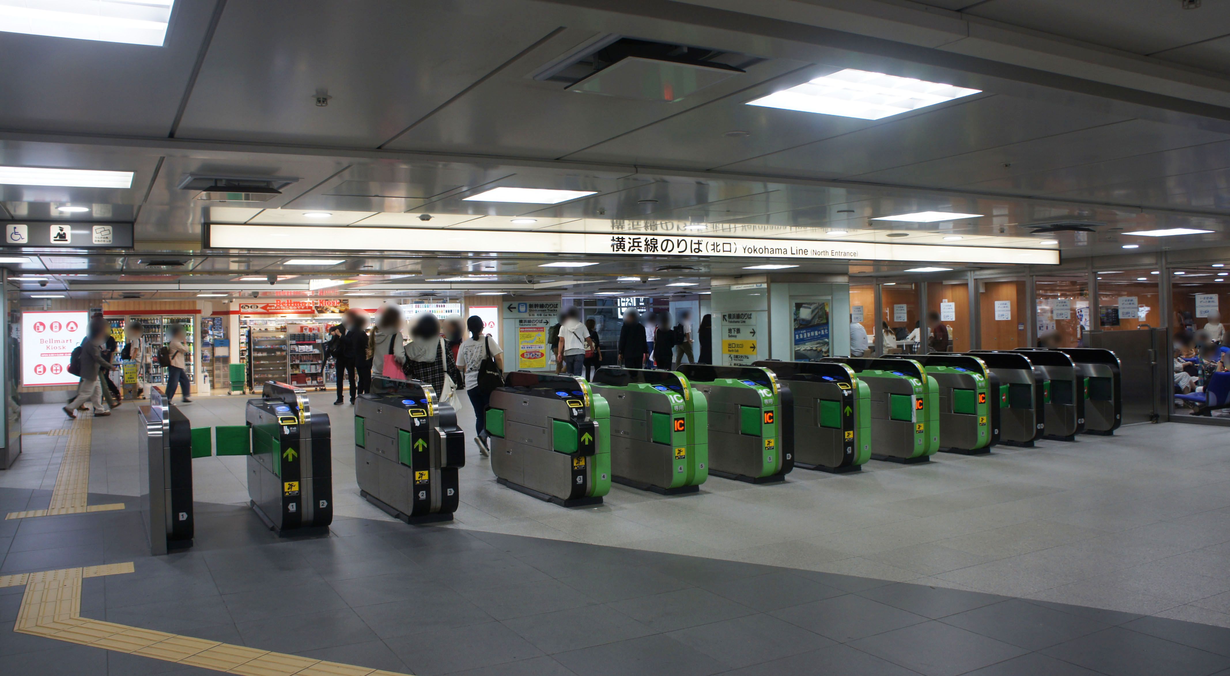 North Gates of JR Shin-Yokohama Station Sony NEX-3 + E 18-55mm F3.5-5.6 OSS